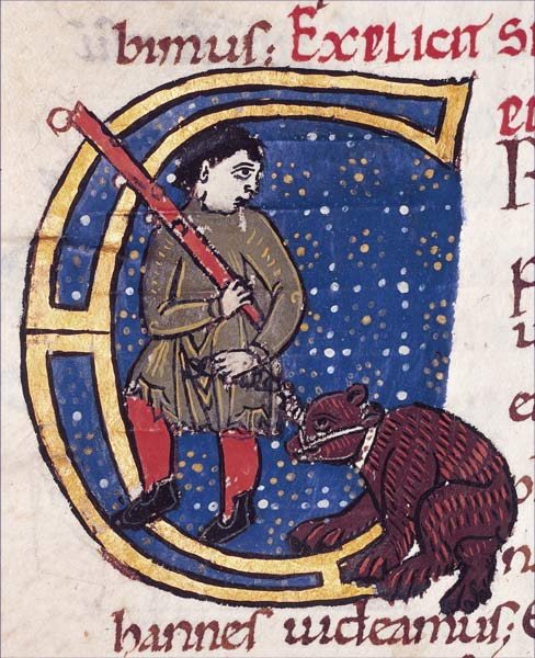 Man leading muzzled bear